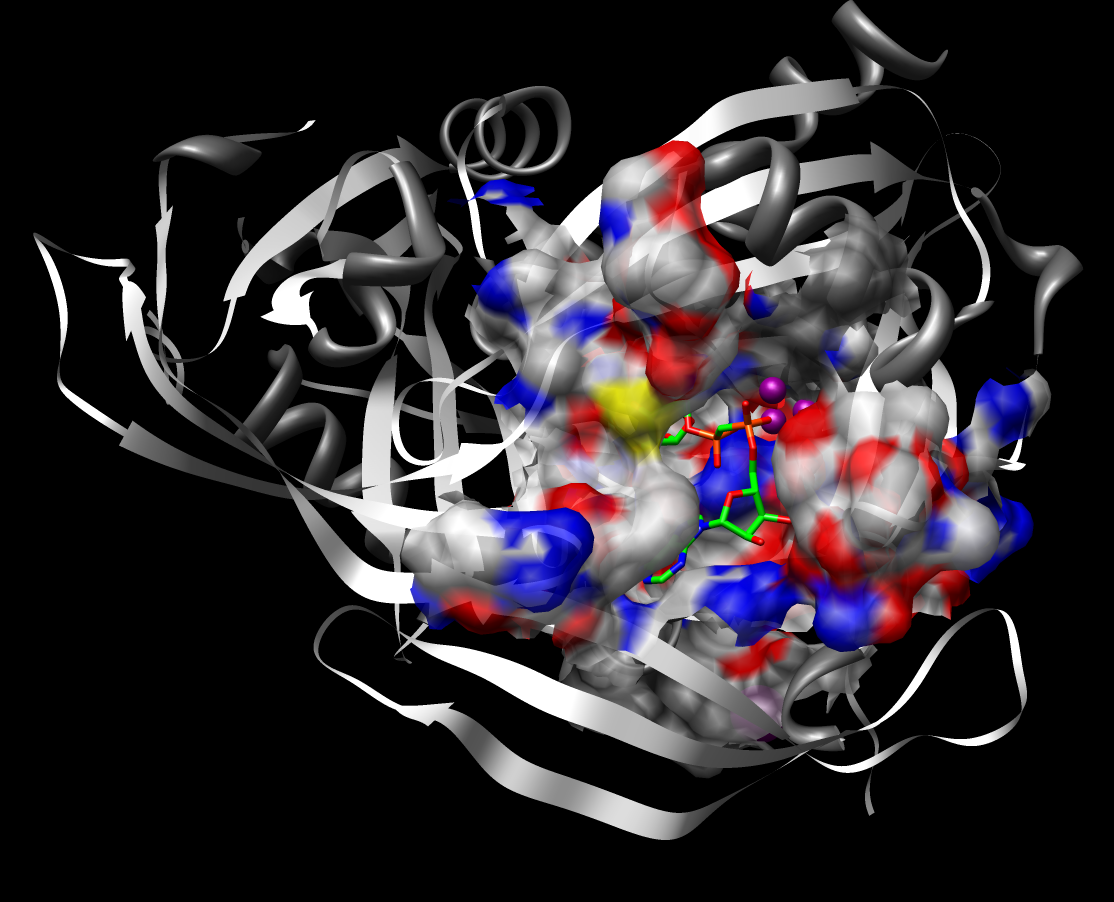 ADP Ribose Diphosphatase (Pocket shown for the substrate)